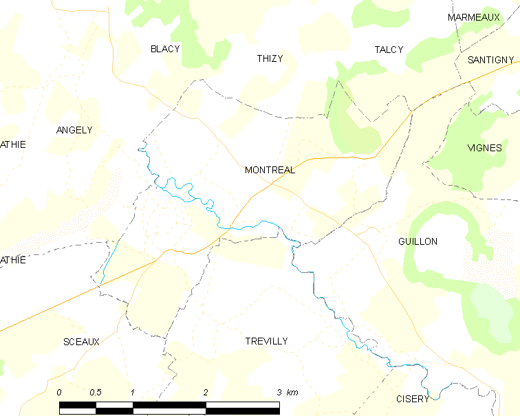 Map of French municipality Montréal